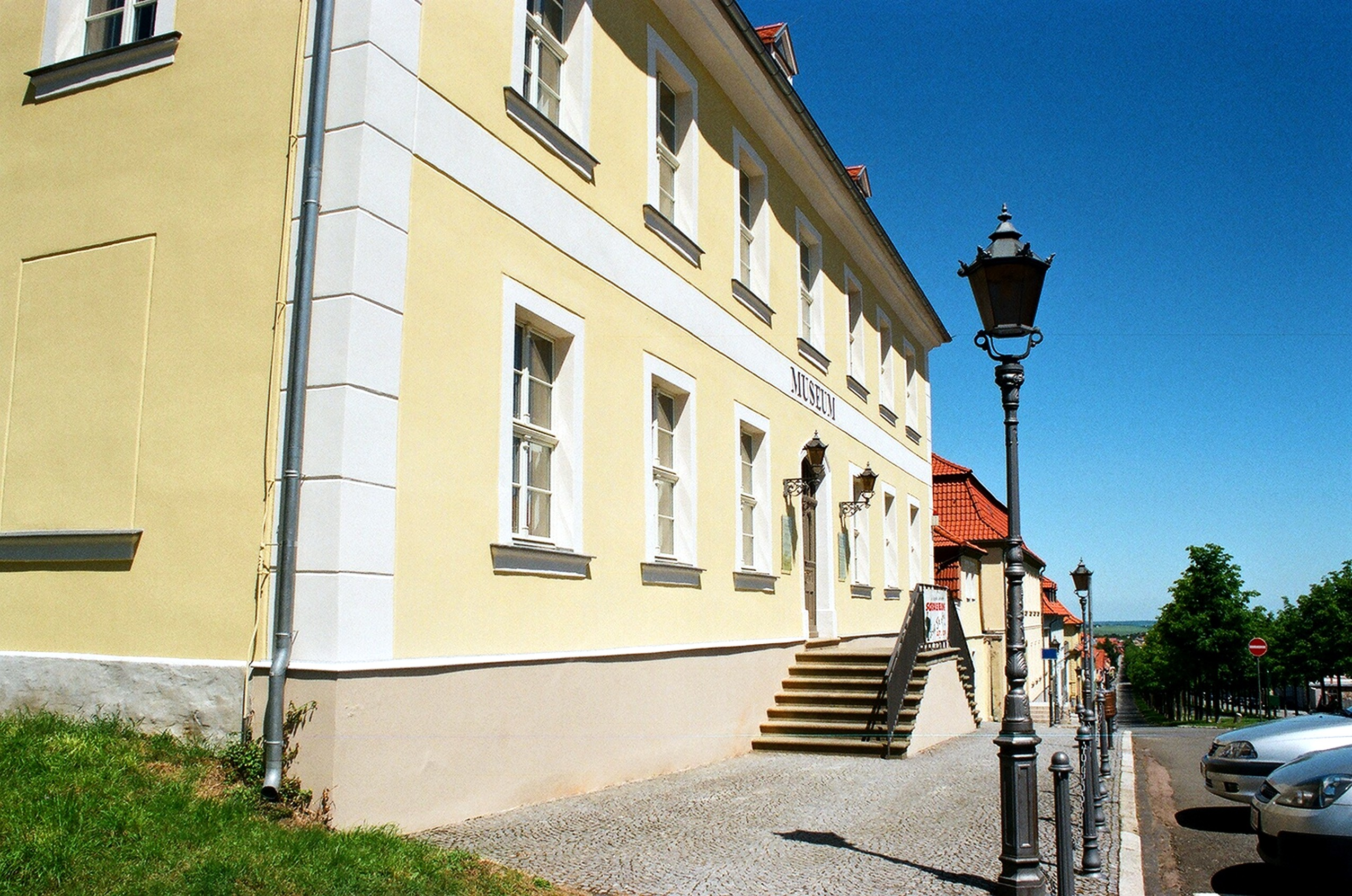 Ballenstedt, the local historical museum